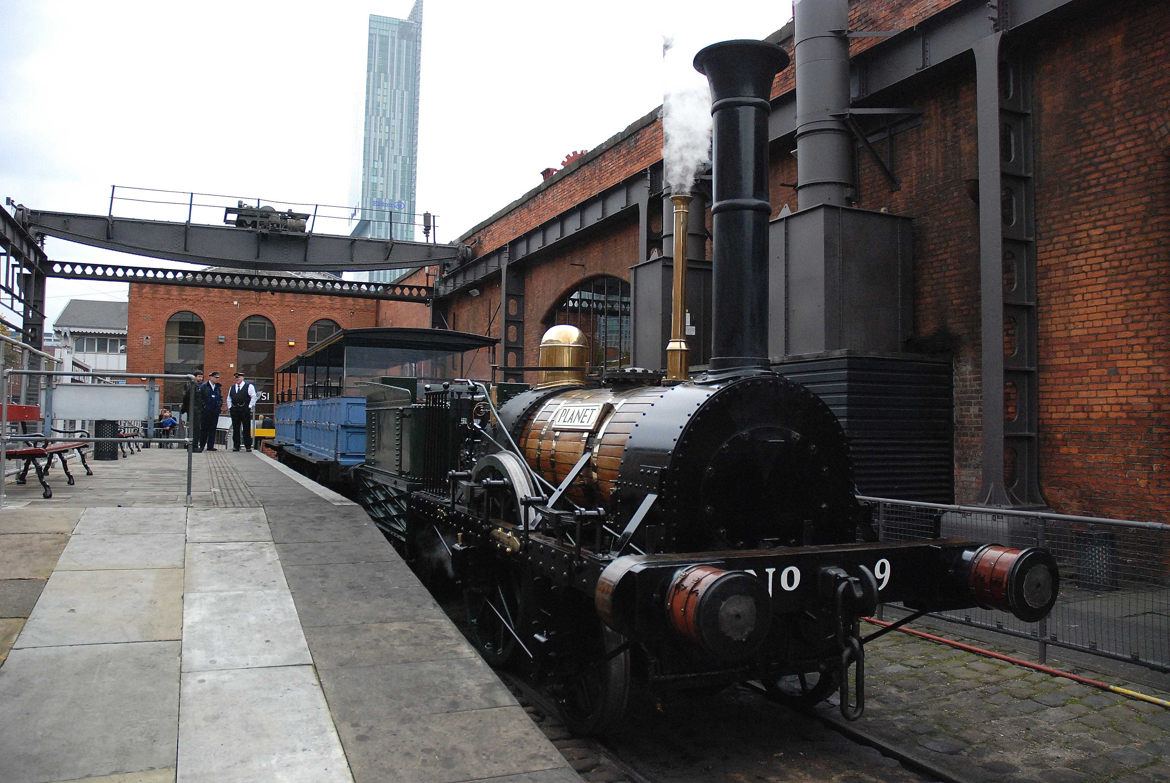 Replica of “Planet” at the Museum of Science and Industry (MOSI) in Manchester, England